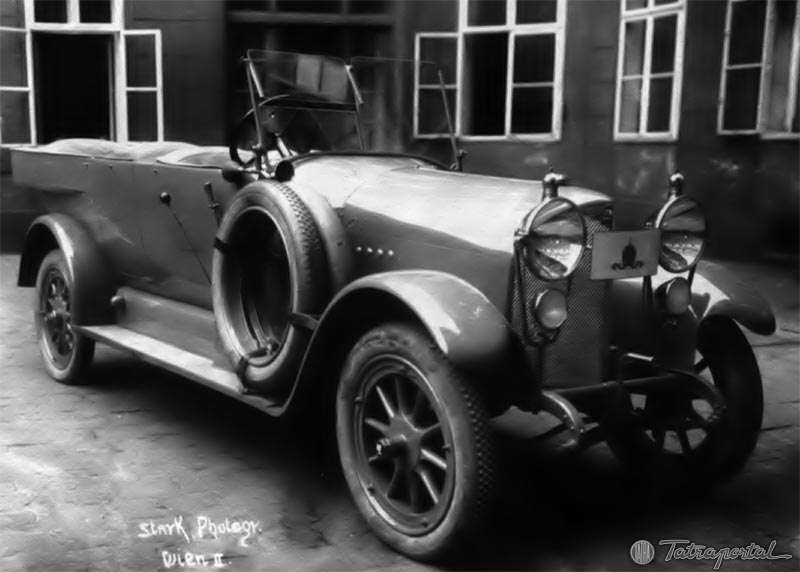 Nesselsdorfer Wagenbau-Fabriksgesellschaft type N or later known as Tatra 20, which was made for Austrian Emperor Charles I in 1917